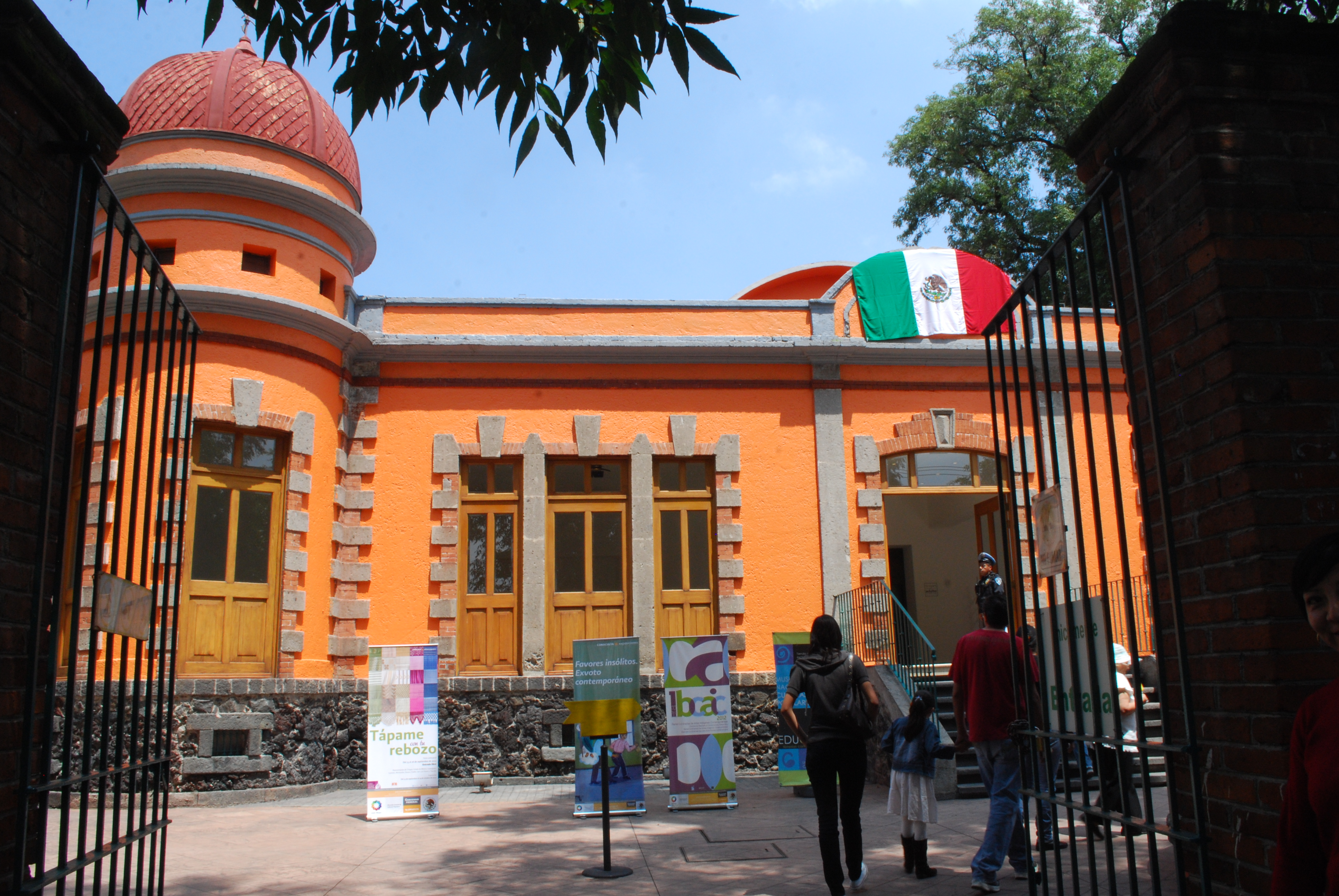 View of the "Capilla" part of the Museo Nacional de Culturas Populares from the 19th century in Coyoacan, Mexico City